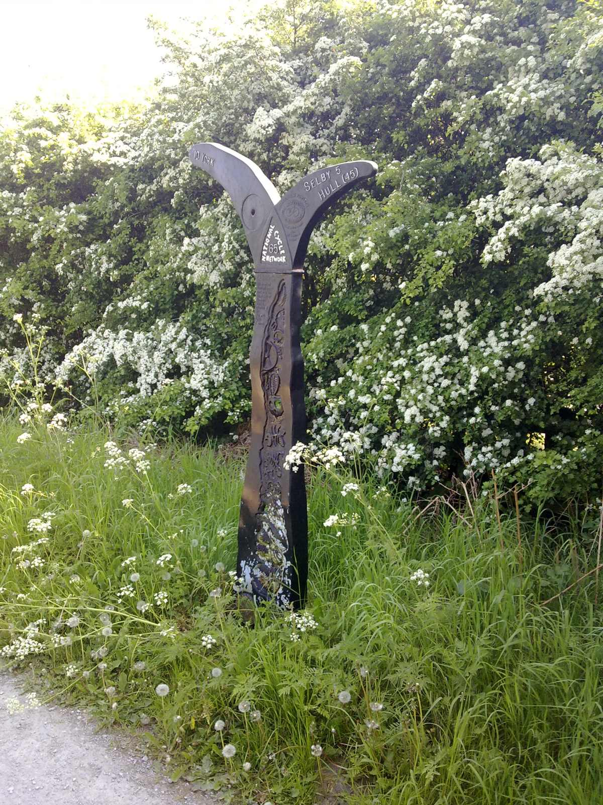 UK National Cycle Network Milepost ref MP97 just north of Riccall, North Yorkshire